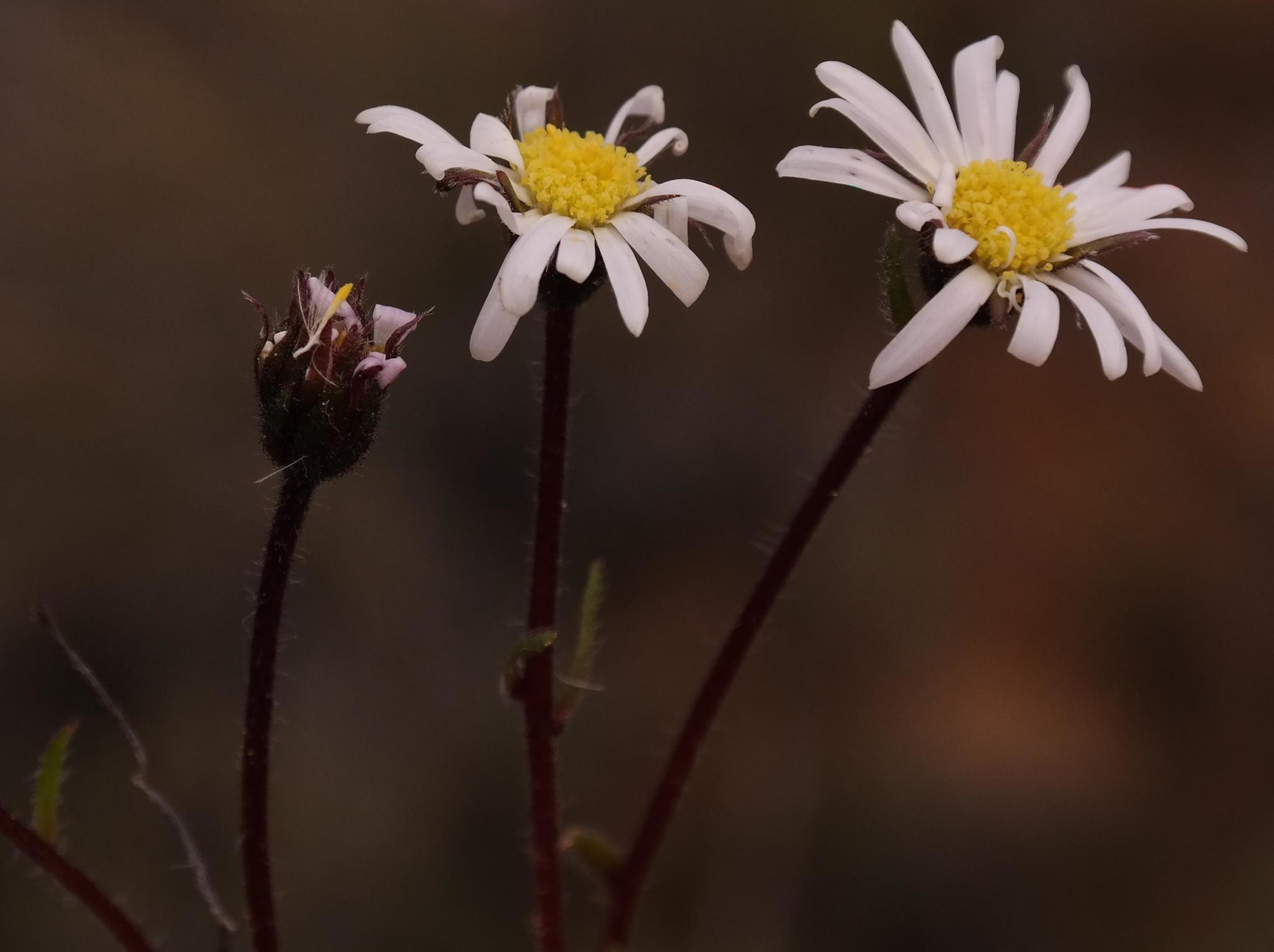 Mairia burchellii, photographed by Nick Helme, on 14 September 2015, at Uitkoms; Bo Swaarmoed; N area; s valley, Ceres County, Western Cape province of South Africa